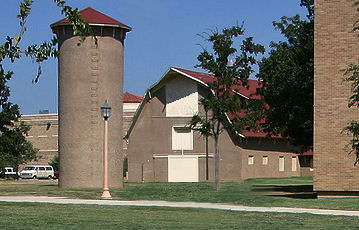 The Texas Technological College Dairy Barn at Texas Tech University in Lubbock, Texas, US